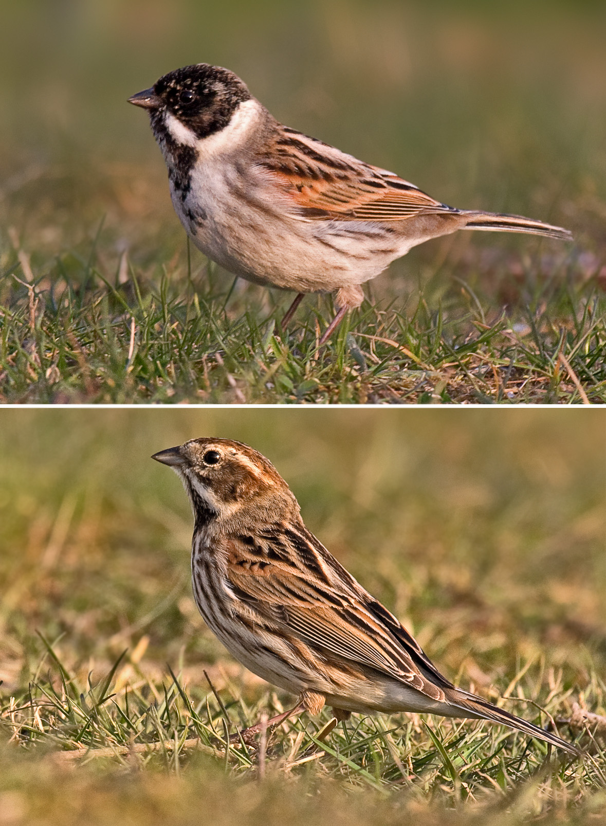 Reed Bunting